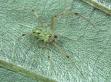 male Chrysso viridiventris from Okinawa.